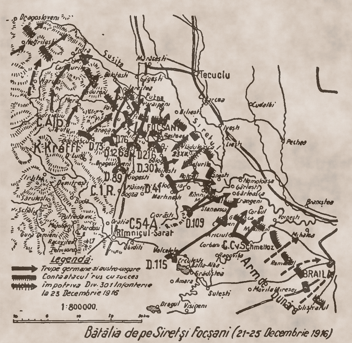 Map with the battles for stabilization of the Romanian Front on the Siret River, December 1916